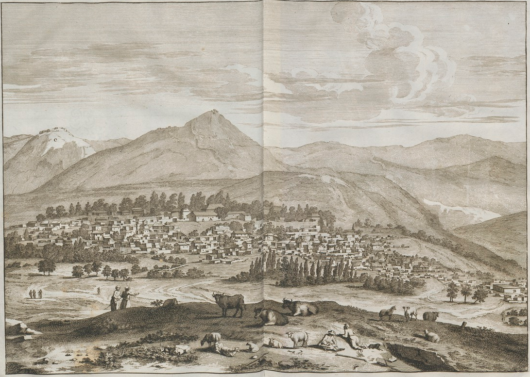 View of Shamakhi by Cornelis de Bruyn